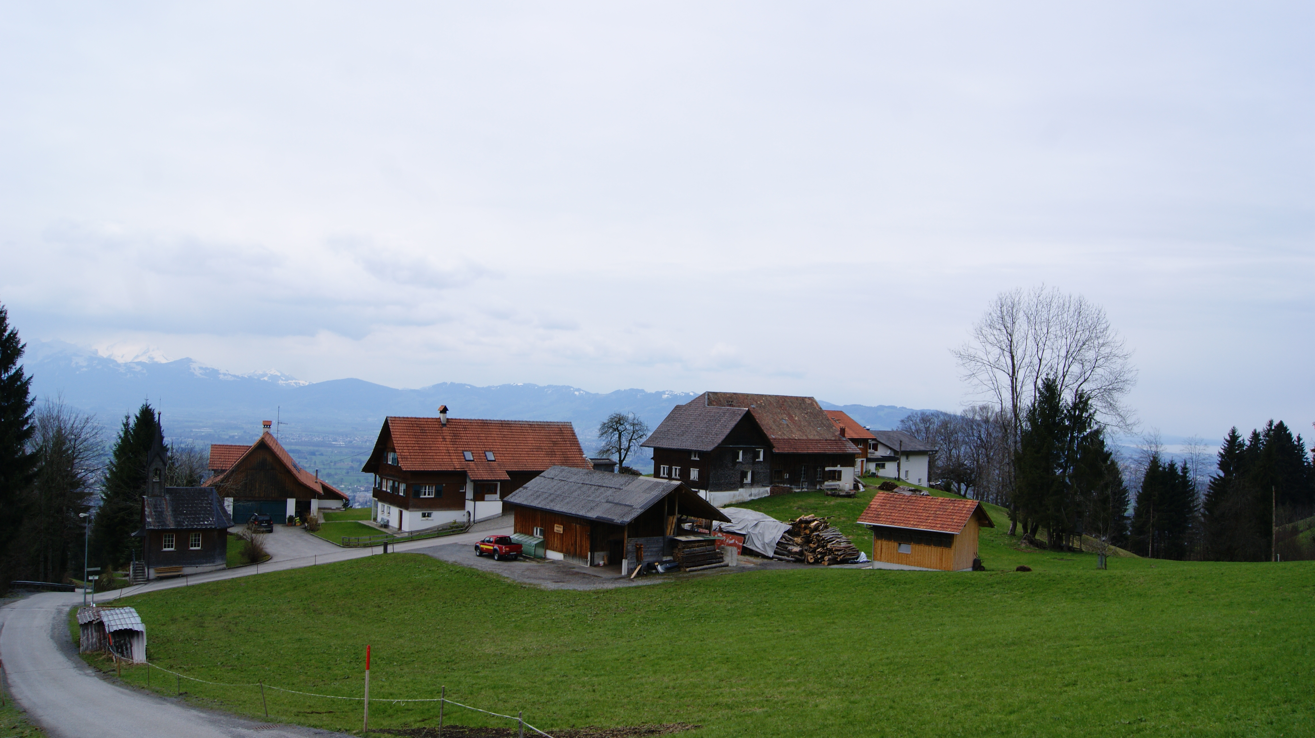 Schwendebach, a hamlet in Dornbirn, Vorarlberg, Austria